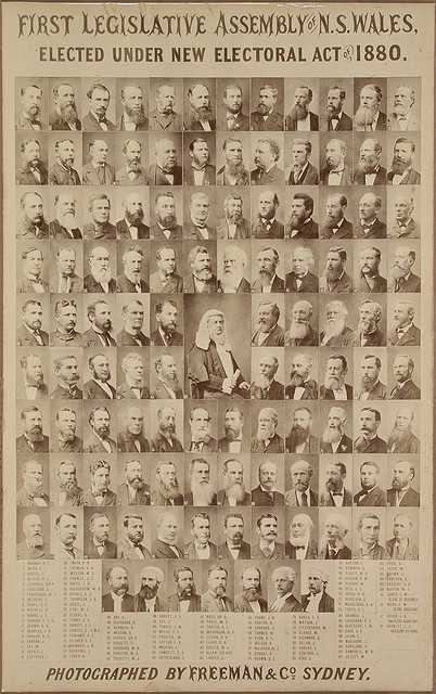 A poster showing members of the first New South Wales Legislative Assembly. Taken 1880